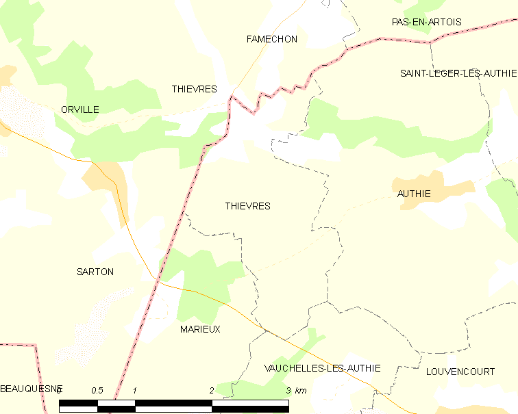 Map of French municipality Thièvres